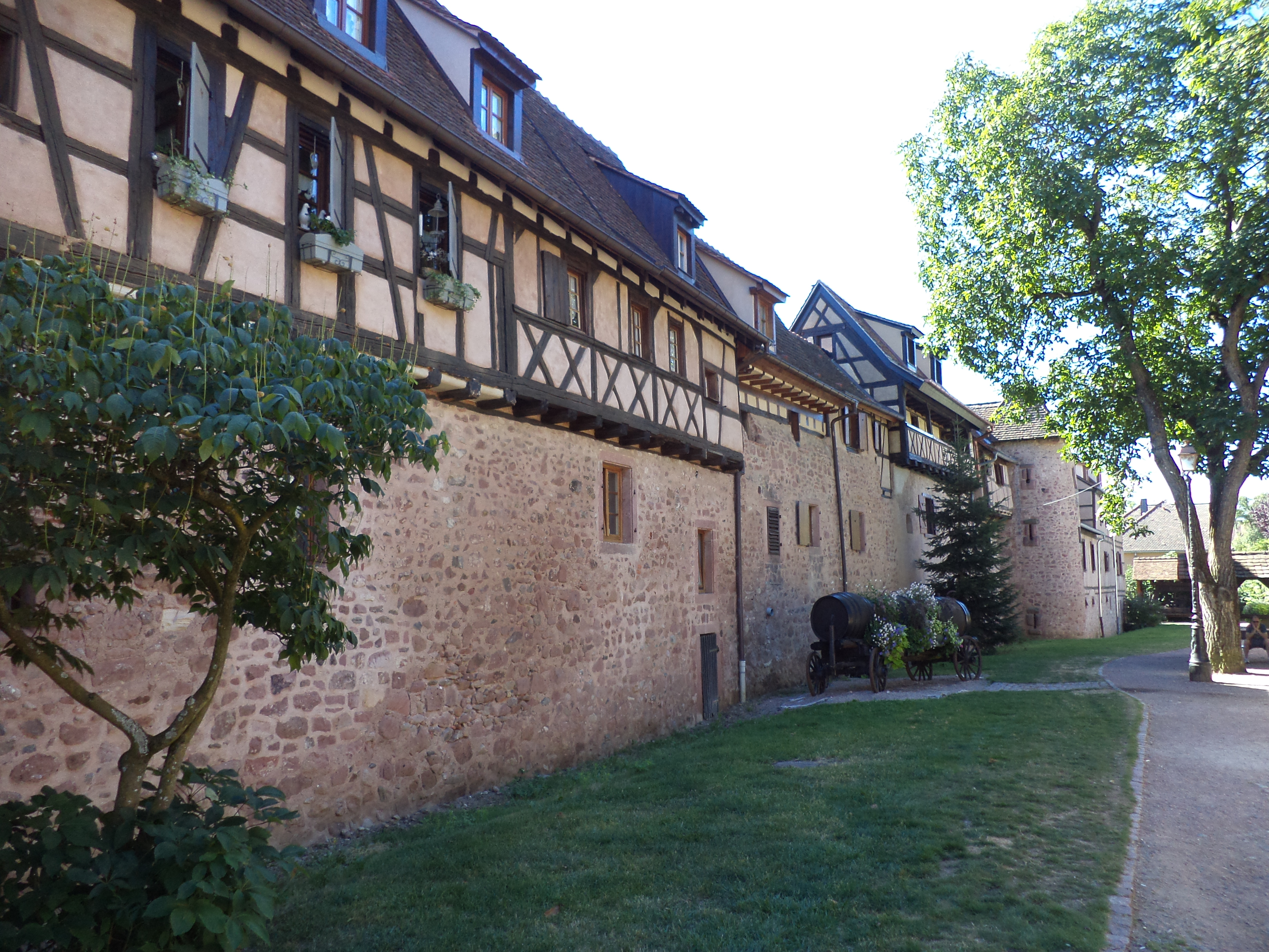 Riquewihr. The west external wall of the city.